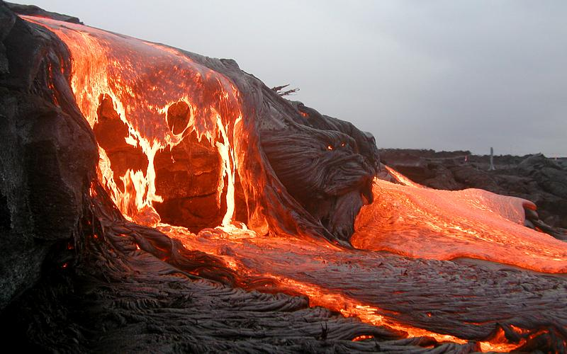 Caption from USGS site: "One branch of the lava stream drips down small cliff at head of bench, and one flows onto bench. 0620:40"